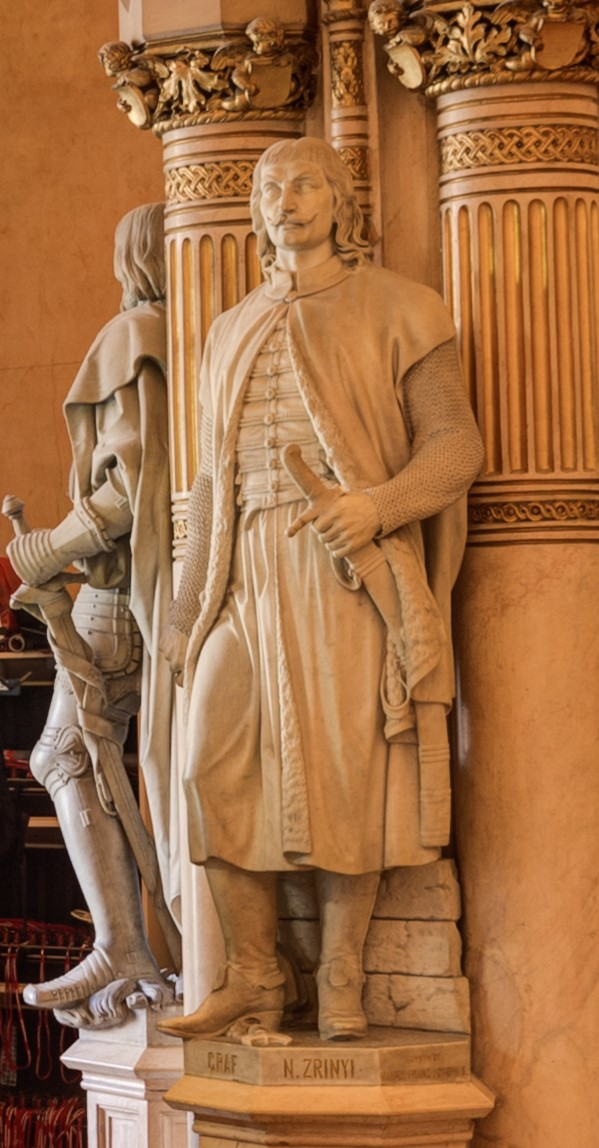 Cropped image of a statue of the Nikola Šubić Zrinski at the Museum of Military History - Military History Institute in Vienna (German: Heeresgeschichtliche Museum – Militärhistorische Institut), the leading museum of the Austrian Armed Forces, which documents the history of Austrian military affairs through a wide range of exhibits.